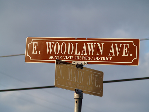 Monte Vista street sign in San Antonio taken by myself.